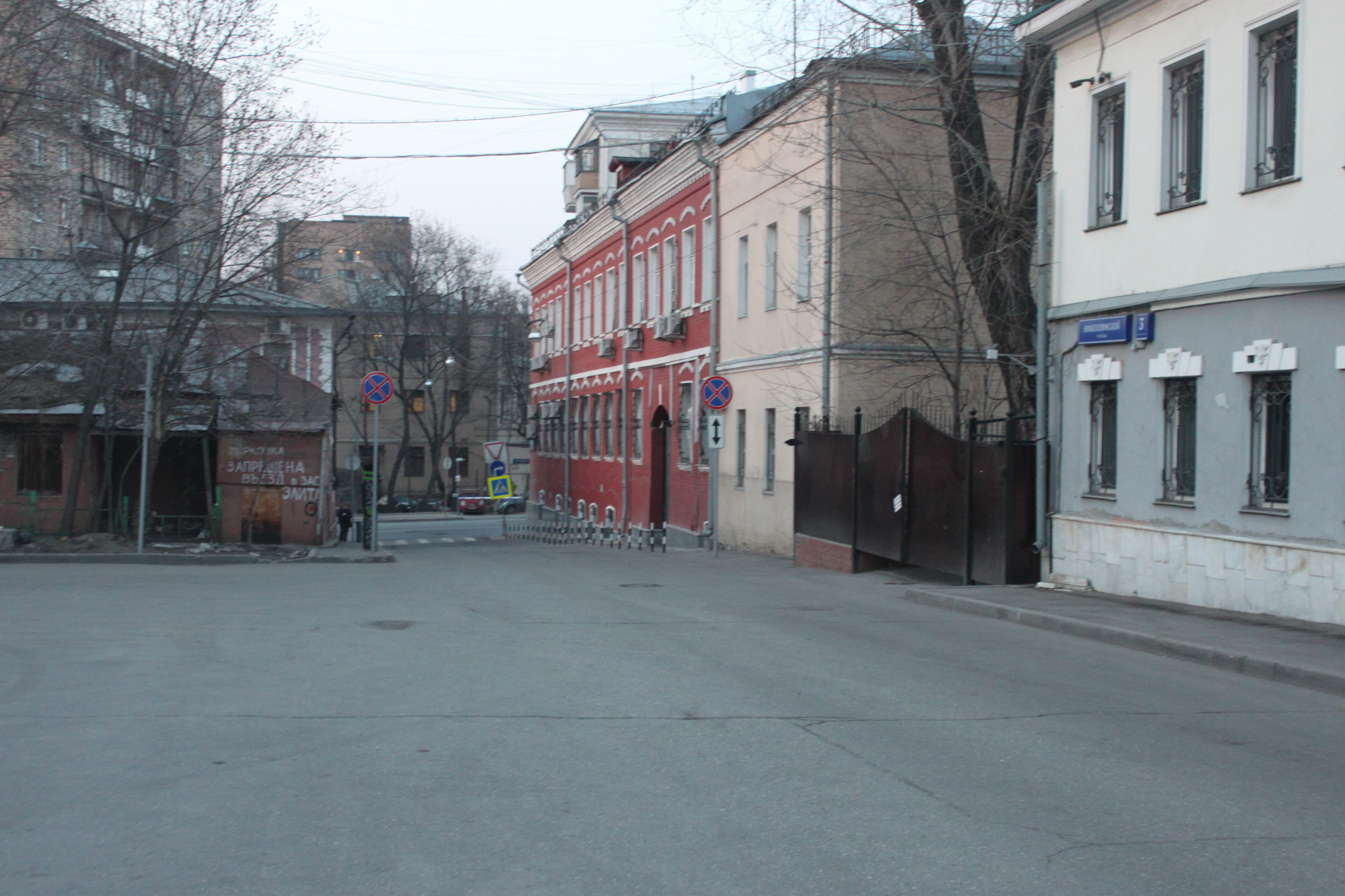 Nikoloyamskaya deadlock.